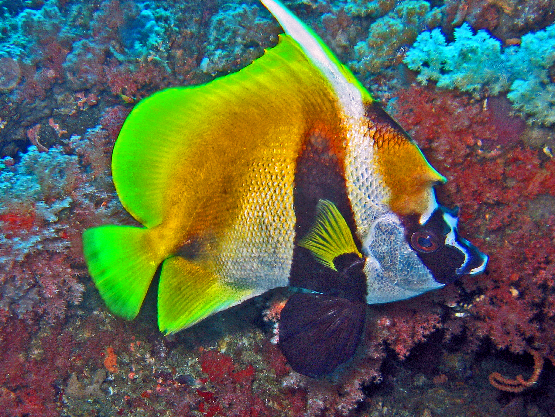 Heniochus monoceros from Maldives